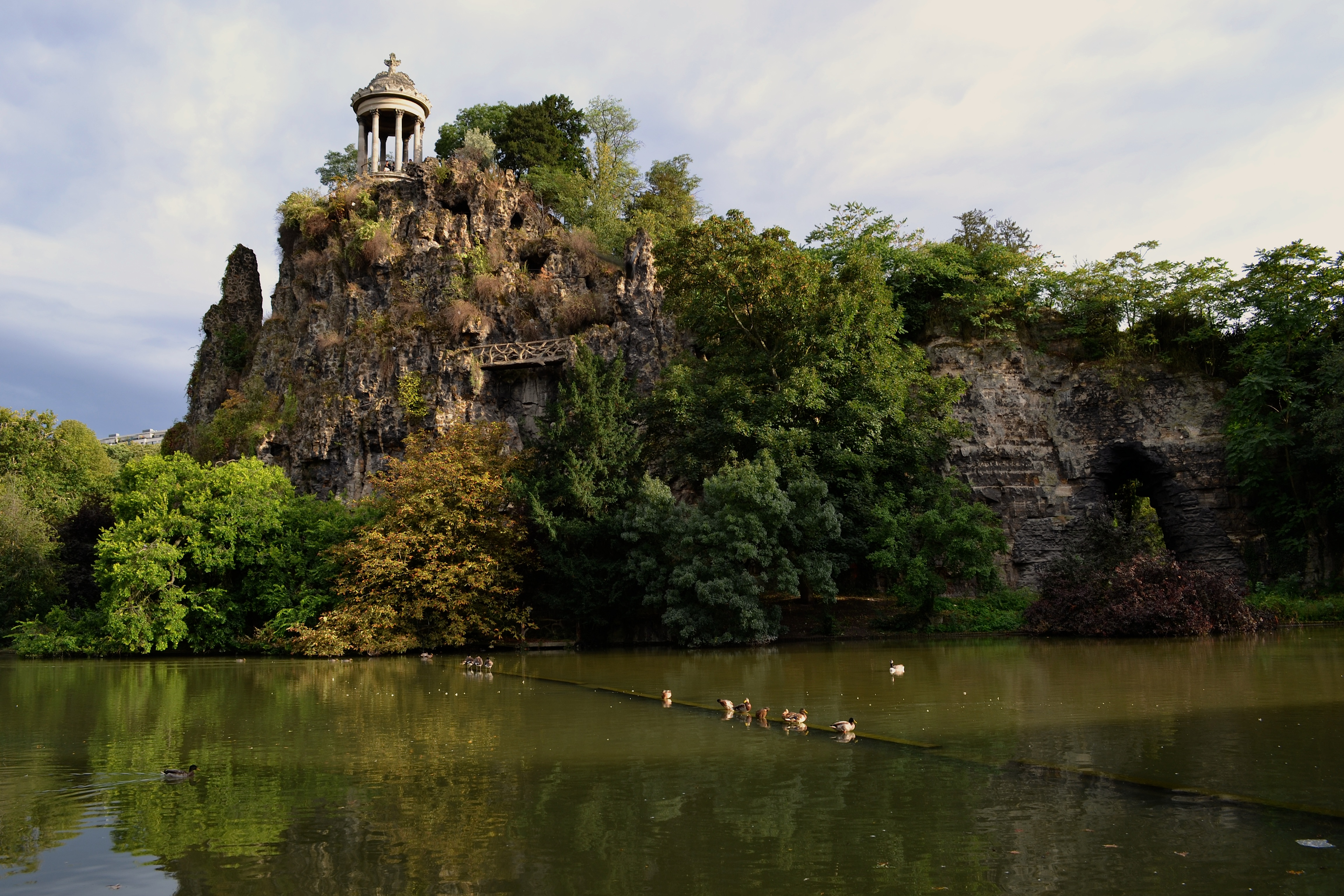 Park Buttes de Chaumont in Paris